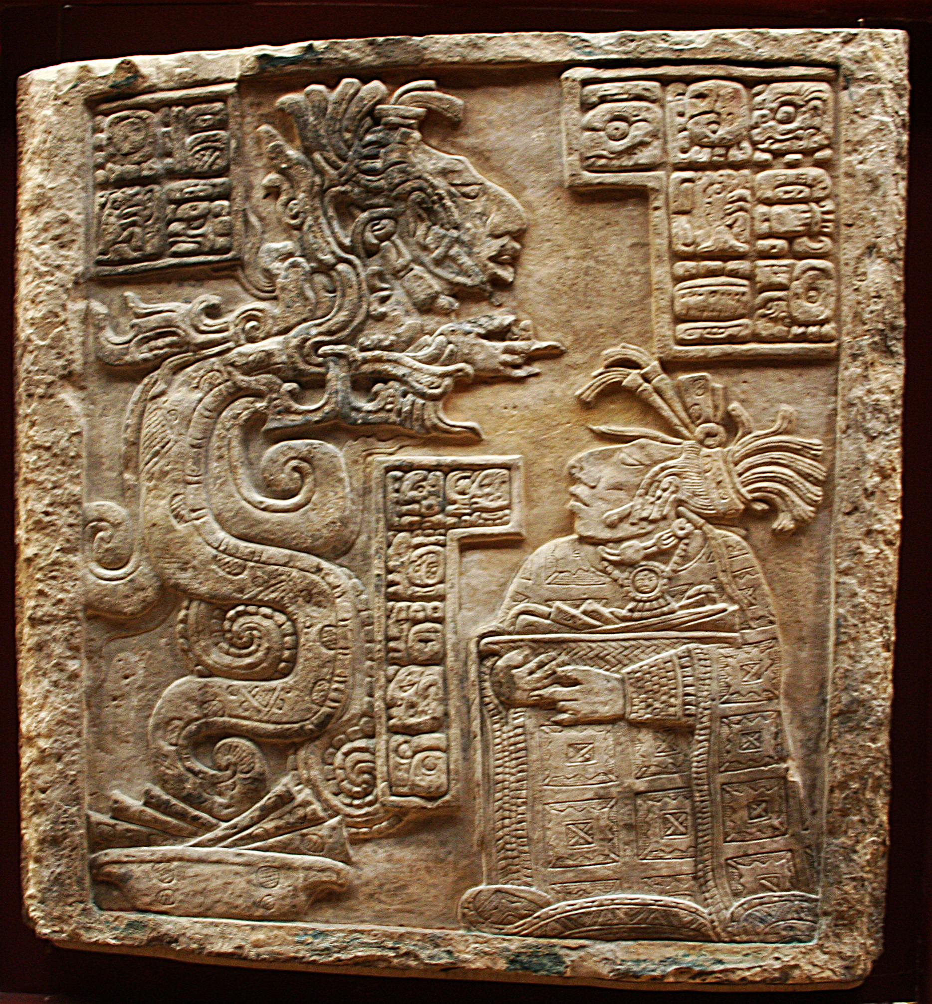 British Museum, London